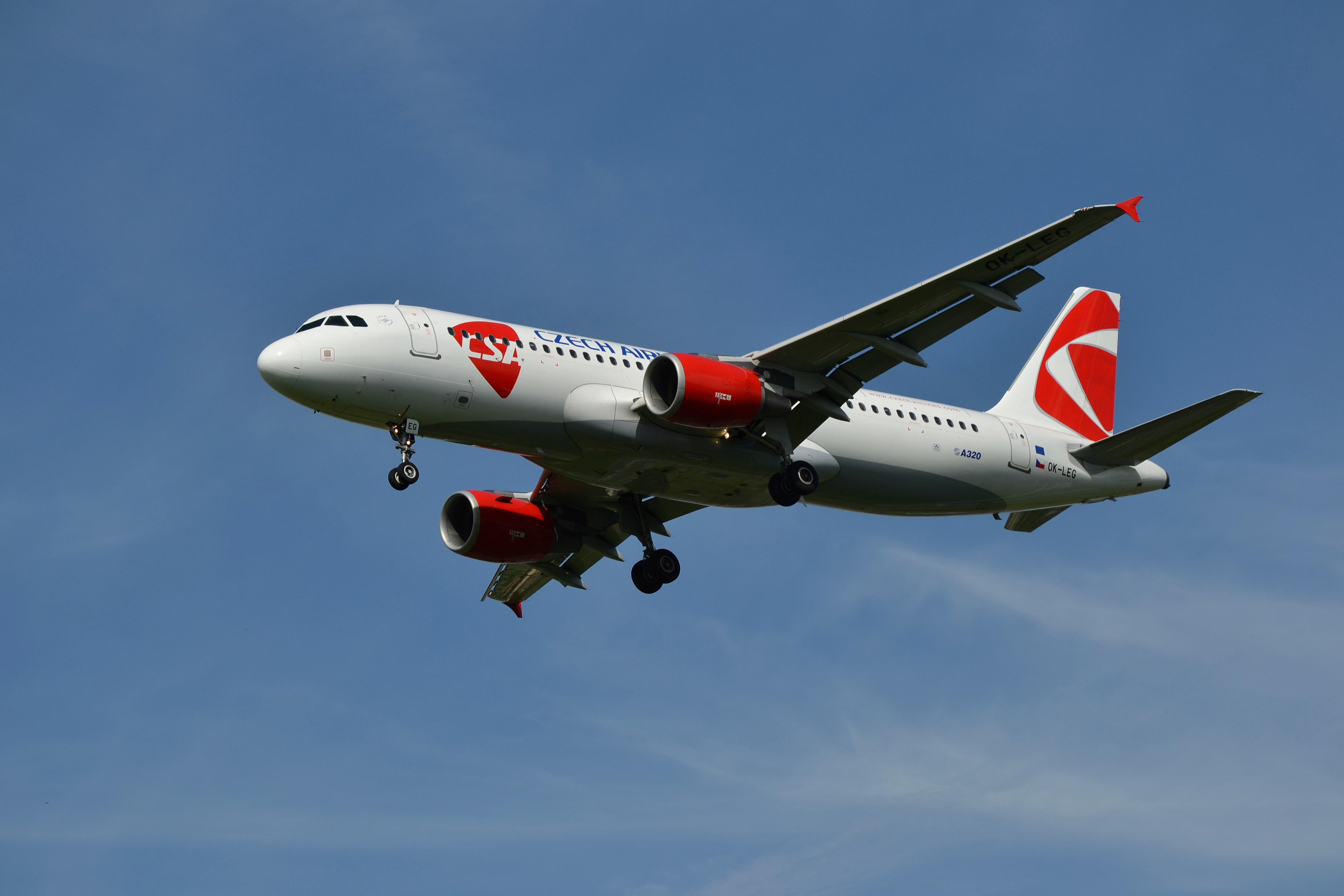 Airbus A320 OK-LEG of Czech Airlines lands at Václav Havel Airport Prague (PRG).